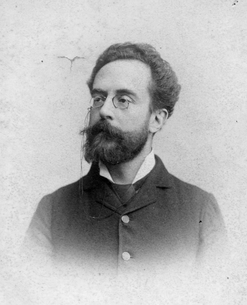 Jaime Batalha Reis (1847-1935), Portuguese diplomat.